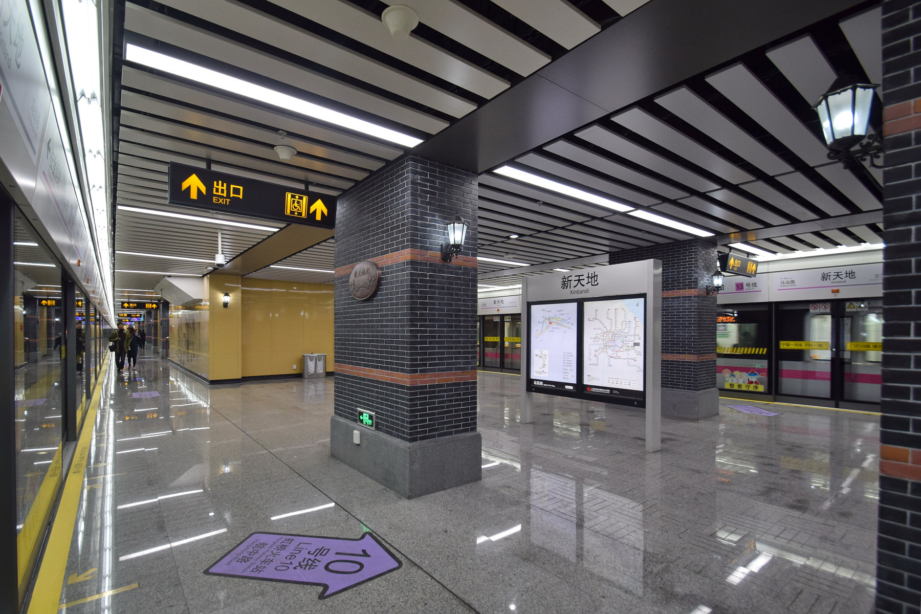 Line 13 Platform of Xintiandi Station, Shanghai Metro